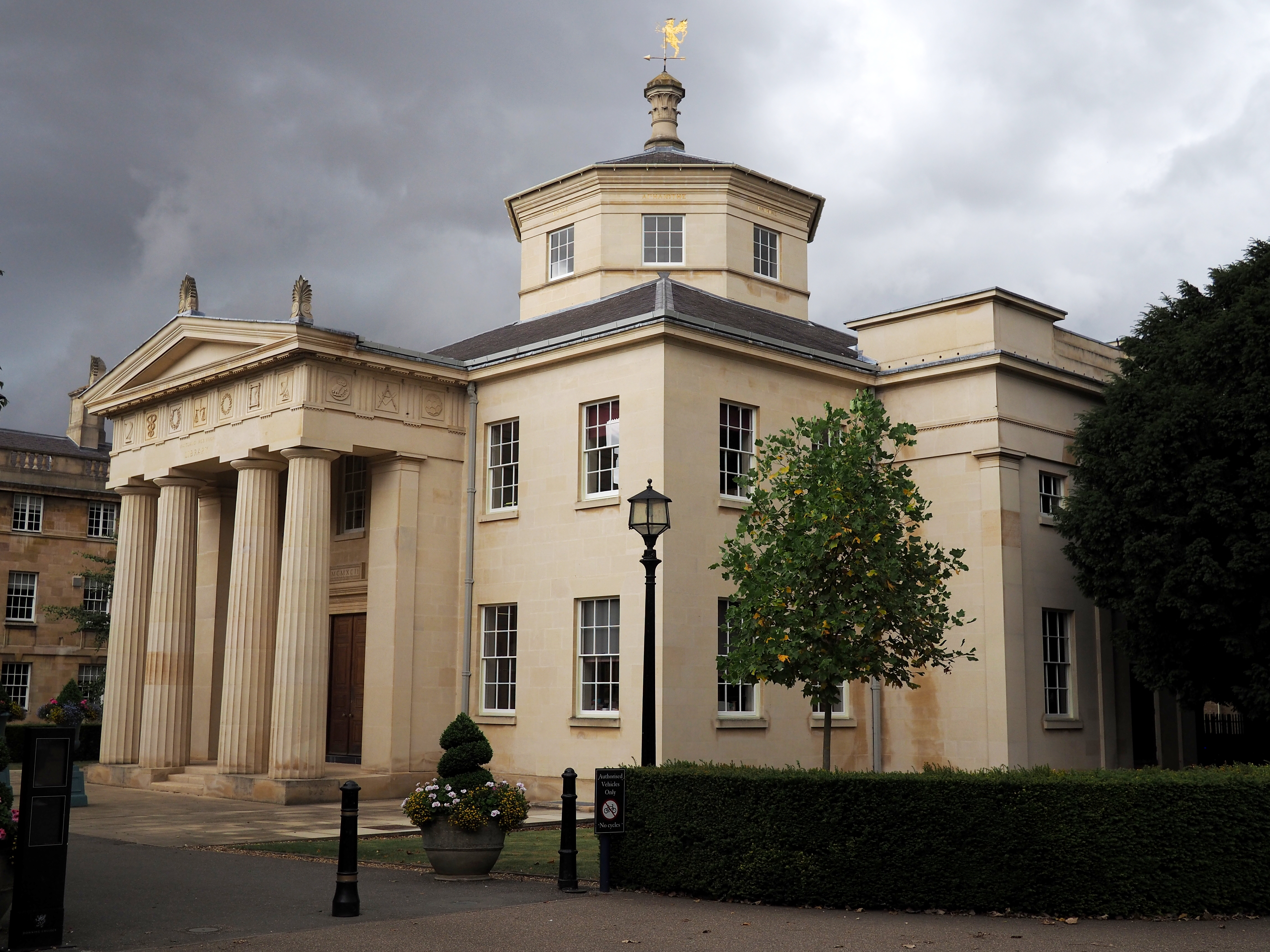 Maitland Robinson Library at Downing College, Cambridge. Opened 1993. Archiect: Quinlan Terry.